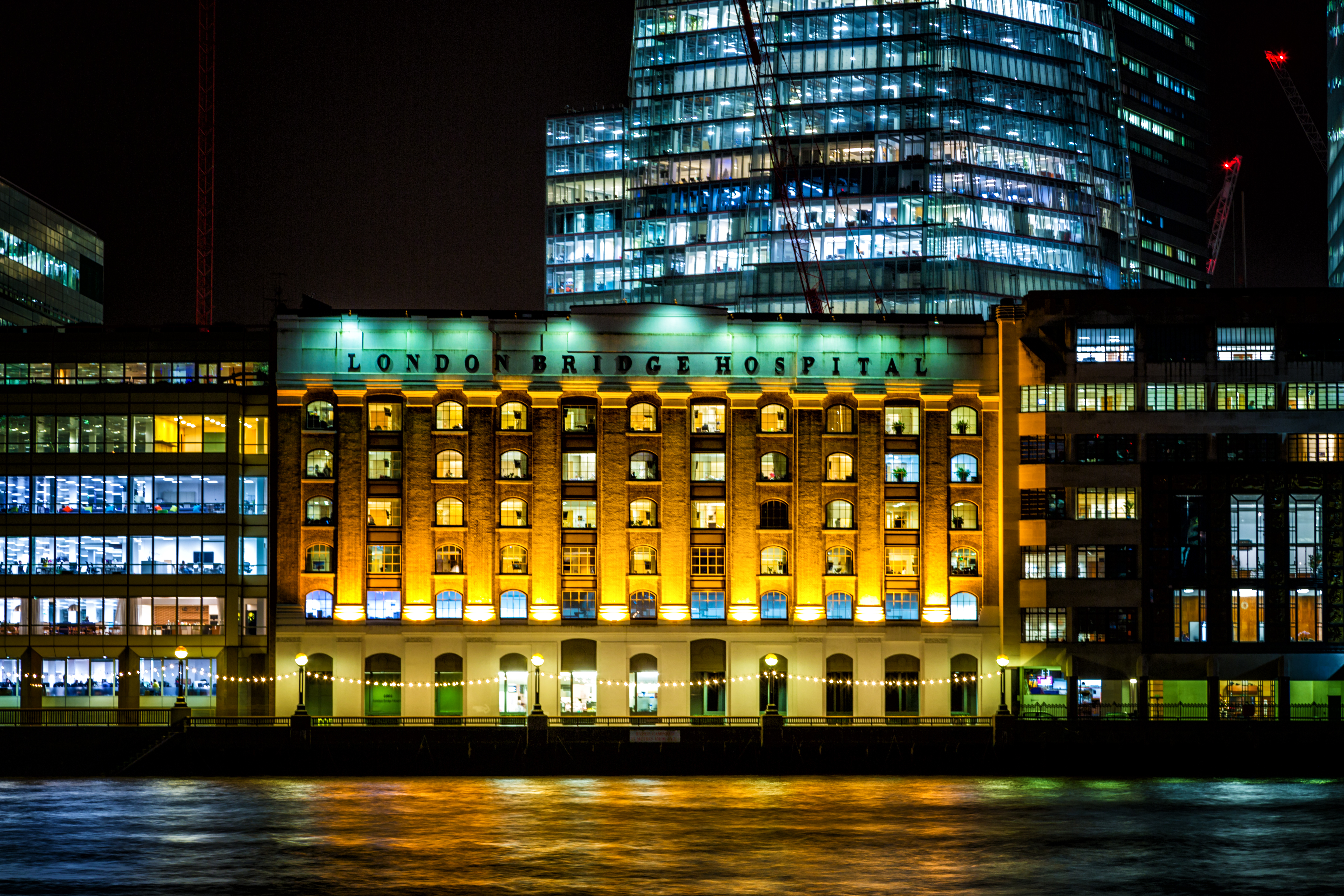 London Bridge Hospital